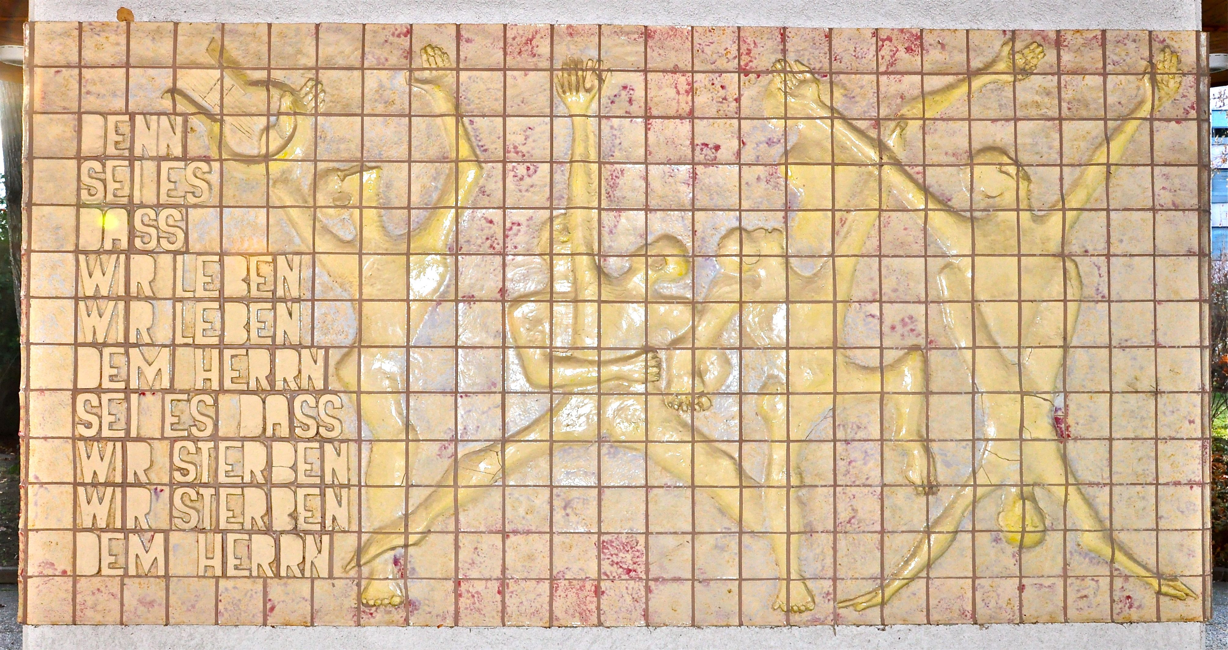 Terracotta relief, created by the sculptor Jan Milan Krkoška for the nursing home Huelgerthpark on the Sankt-Ruprchter-Strasse #5 in the inner city of the capital Klagenfurt, municipality Klagenfurt am Wörthersee, Carinthia, Austria